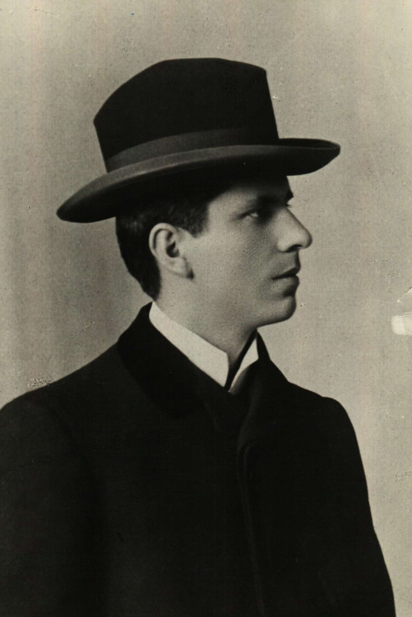 Bulgarian actor Atanas Kirchev (1879-1912)